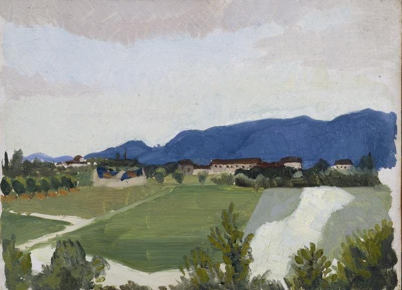 Aerodrome with Camouflaged Hangars image: A view of the aerodrome on the Asagio plateau with the Italian Alps in the distance. A temporary hangar with a camouflaged roof stands in the centre left of the composition. Green fields lie in the foreground and there is a suggestion of buildings in the centre mid-ground.